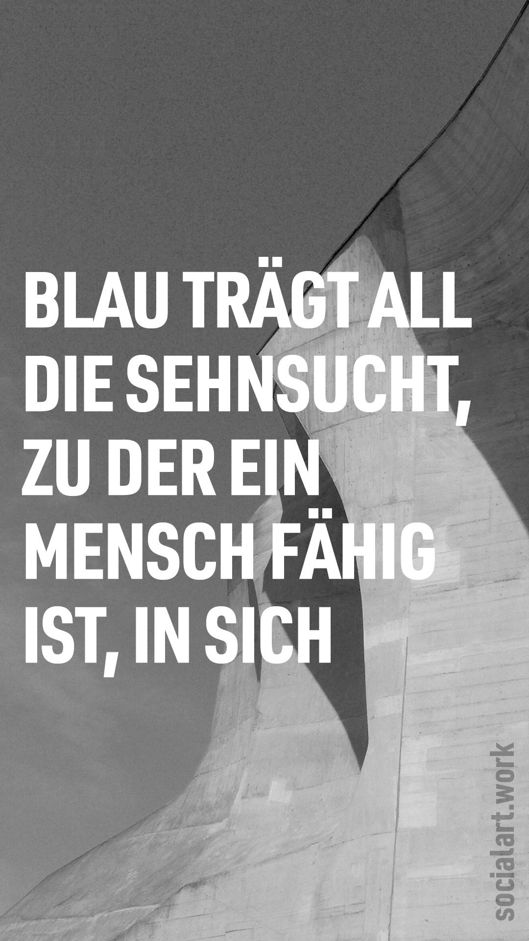 1 of 3 Digital Posters displayed in Switzerland, July 2020 by public artist Martin Firrell. The first three artworks of Die Chromatika offer an alternative poetic interpretation of the primary colours Blue, Red and Yellow.